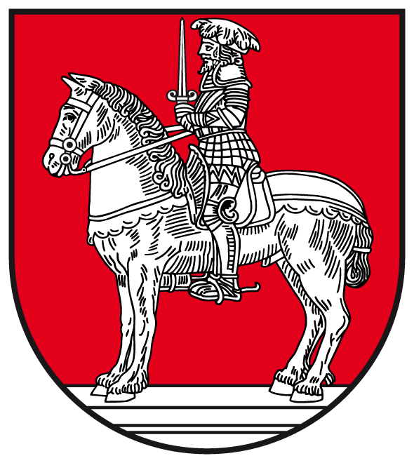 coat of arms of the former German district Landkreis Haldensleben